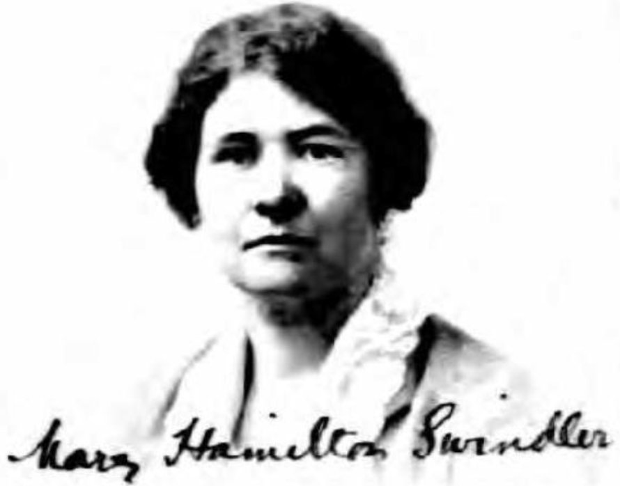 Mary H Swindler passport photo 1924